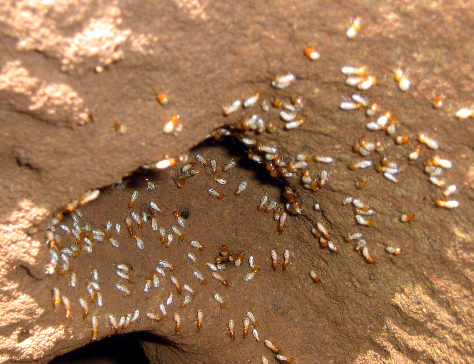 close up of the top a termite mound in Tamil Nadu, India.